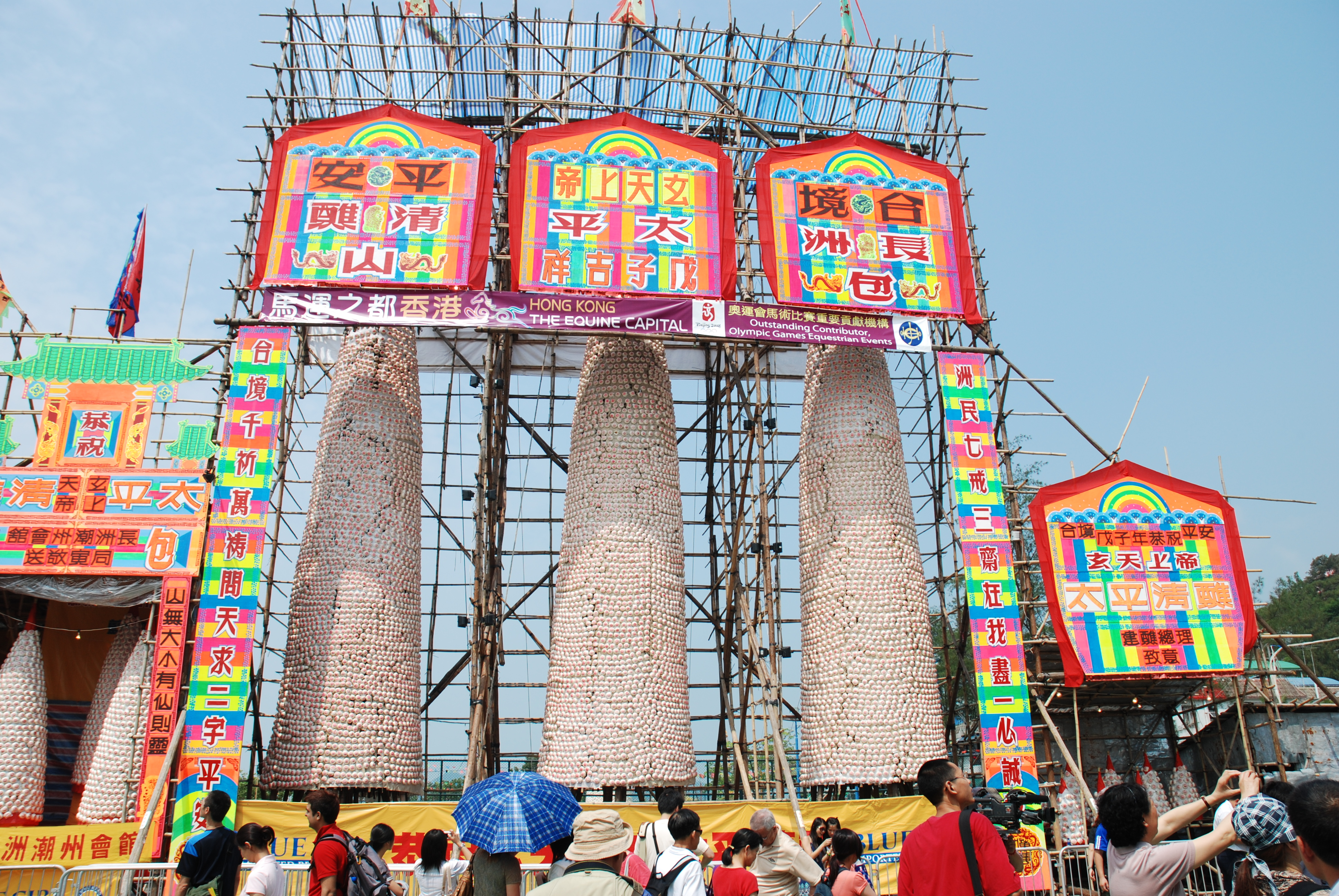 Cheung Chau Bun Festival mountain of buns (chinese pastry)